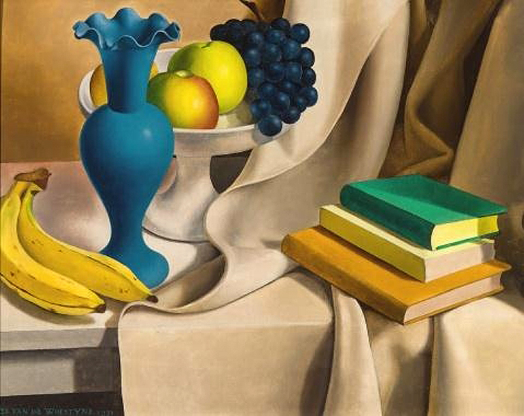 Still life with fruit bowl